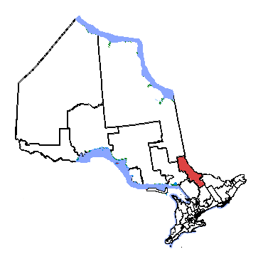 Map of the Nipissing—Timiskaming electoral district. Based on Earl Andrew's maps, created by SimonP.